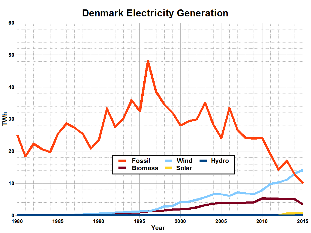 Denmark electricity generation from EIA. This file may be updated as new data becomes available.